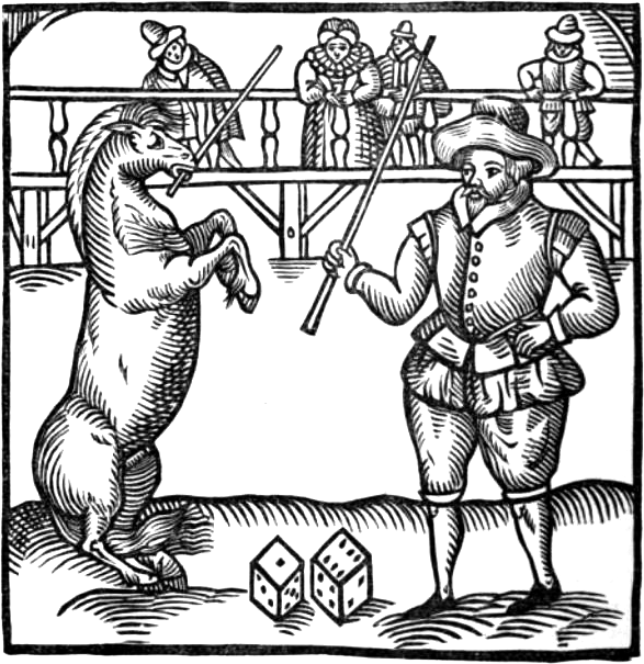 An engraving of Marocco (a performing horse) entitled Maroccus Extaticus, appearing in Collectanea Anglo-poetica by Thomas Corser.